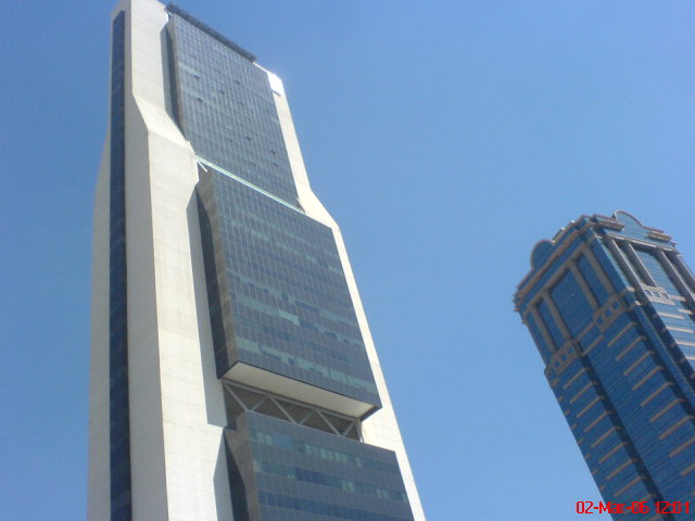 CNCI Monterrey Mexcio